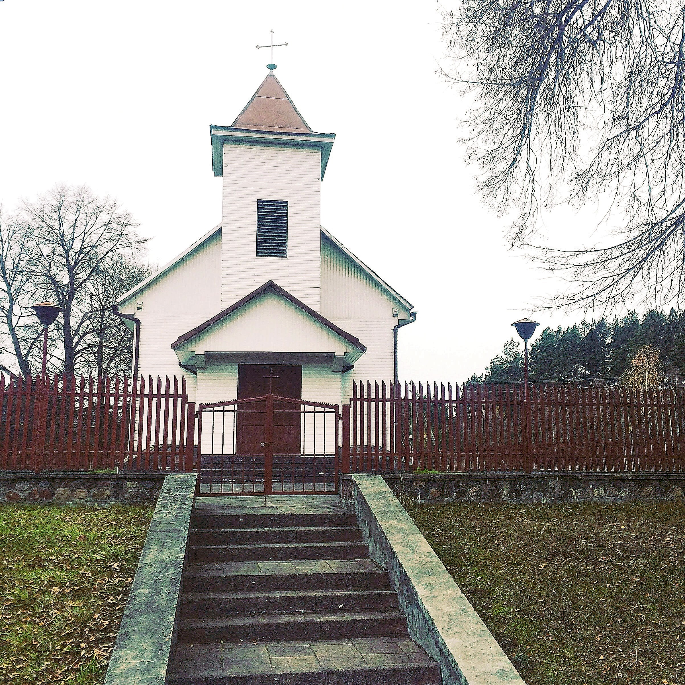 Chapel in Kalety